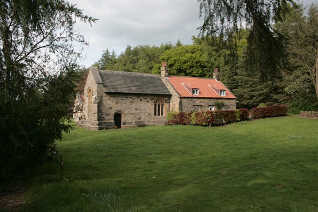 Lady Chapel. This chapel, set on the wooded slope of Ruebury Hill and overlooking the Cleveland Plain pre-dates the nearby Mount Grace Priory (SE4498). It is said that in 1398 Carthusian Monks climbed the hill to this place of pilgrimage, a Shrine to Our Lady, and was so moved they built the priory at the foot of the hill. By the sixteenth century the Shrine was in ruins but was still a site of pilgrimage. In 1665 Franciscan Friars came to look after the pilgrims but were forced to leave in 1832. The chapel was rebuilt in 1960 by two brothers who discovered that the ruins were still being used as an undocumented place of pilgrimage from all over the country. Nine years later the Franciscan Friars returned. See 440276 for a view of the interior and further history.